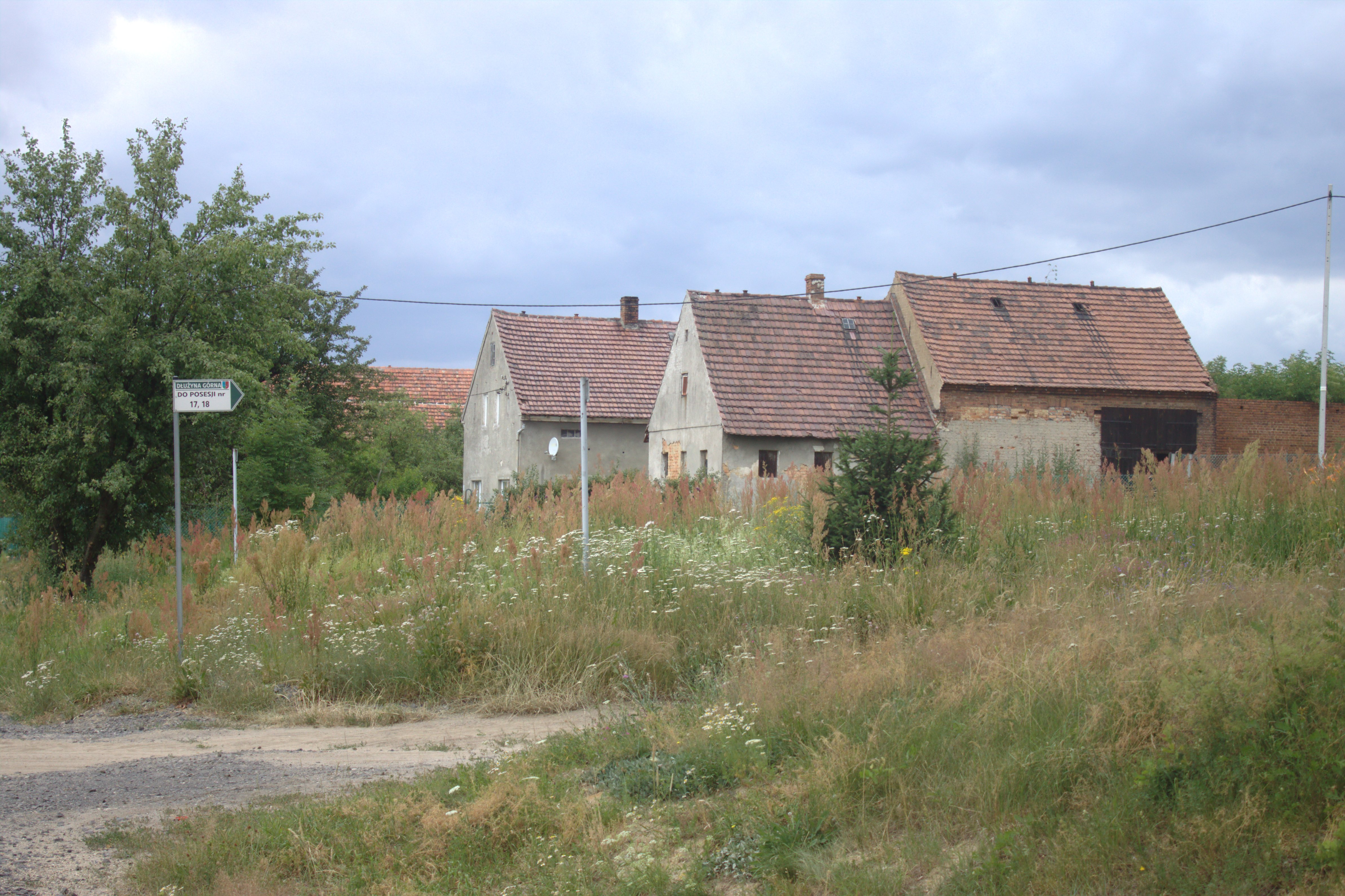 This photograph was created as a part of Wikiexpedition Lower Silesia, a project supported by Wikimedia Poland grant.